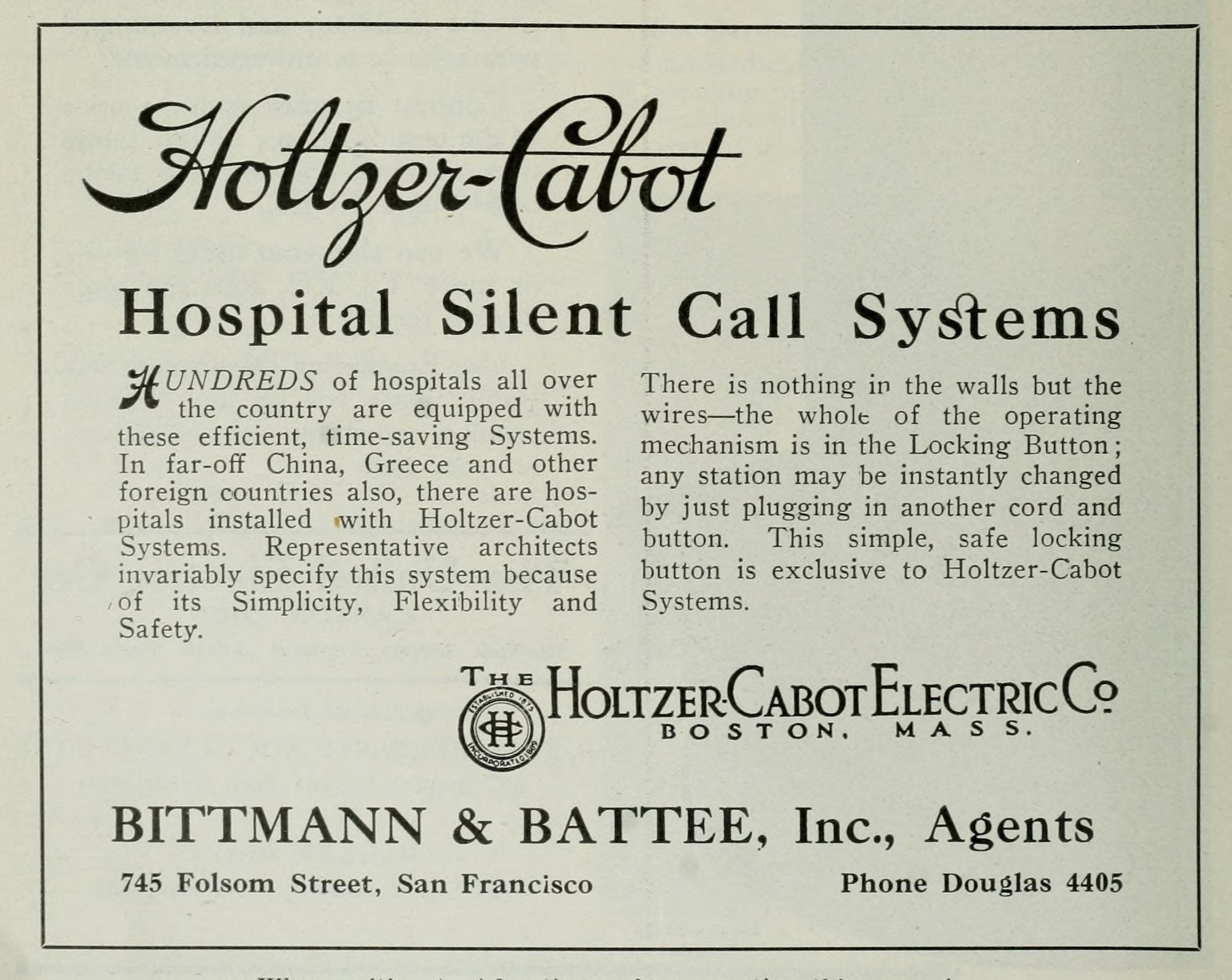 Title: Architect and engineer Year: 1905 (1900s) Authors: Subjects: Architecture Architecture Architecture Building Publisher: San Francisco : Architect and Engineer, Inc Text Appearing Before Image: ' Text Appearing After Image: Hospital Silent Call Sy^ems ^UNDREDS of hospitals all oyer^^ the country are equipped withthese efficient, time-saving Systems.In far-off China, Greece and otherforeign countries also, there are hos-pitals installed -with Holtzer-CabotSystems. Representative architectsinvariably specify this system becauseof its Simplicity, Flexibility andSafety. There is nothing in the walls but thewires—the whole of the operatingmechanism is in the Locking Button;any station may be instantly changedby just plugging in another cord andbutton. This simple, safe lockingbutton is exclusive to Holtzer-CabotSystems. ^HoltzerCabotElectricC? V^RP;) BOSTON. MASS. BITTMANN & BATTEE, Inc., Agents 745 Folsom Street, San Francisco Phone Douglas 4405 When writing to Advertisers please mention this masrazine. THE ARCHITECT AND ENGINEER 137